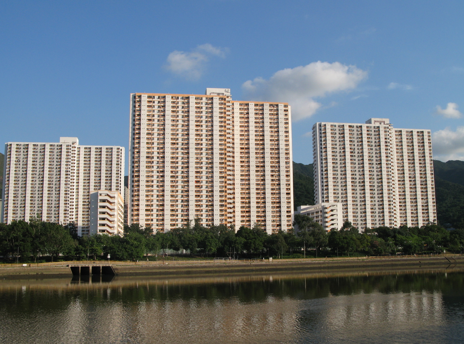 HK Jat Min Chuen